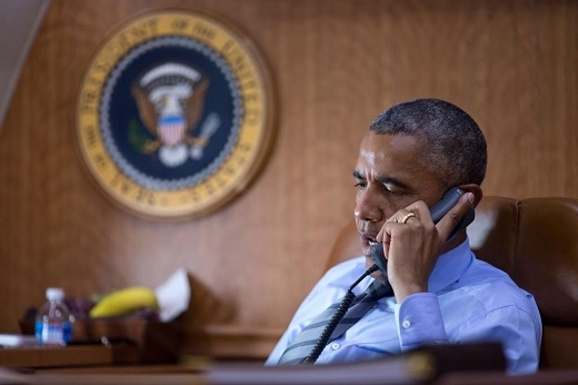 President Obama calls to President Poroshenko of Ukraine aboard Air Force One to discuss the tragic crash of Malaysia Airlines Flight 17. July 17, 2014.